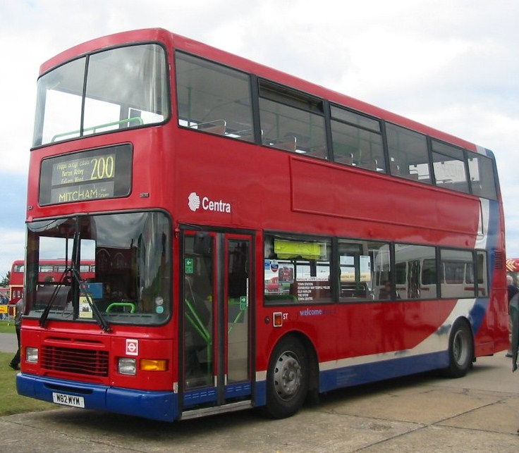 Centra's M82 MYM, a Volvo Olympian/Alexander Royale at Showbus 2004. It was new in May 1995 to London Central as their fleet no. AV2 (single-door configuration).